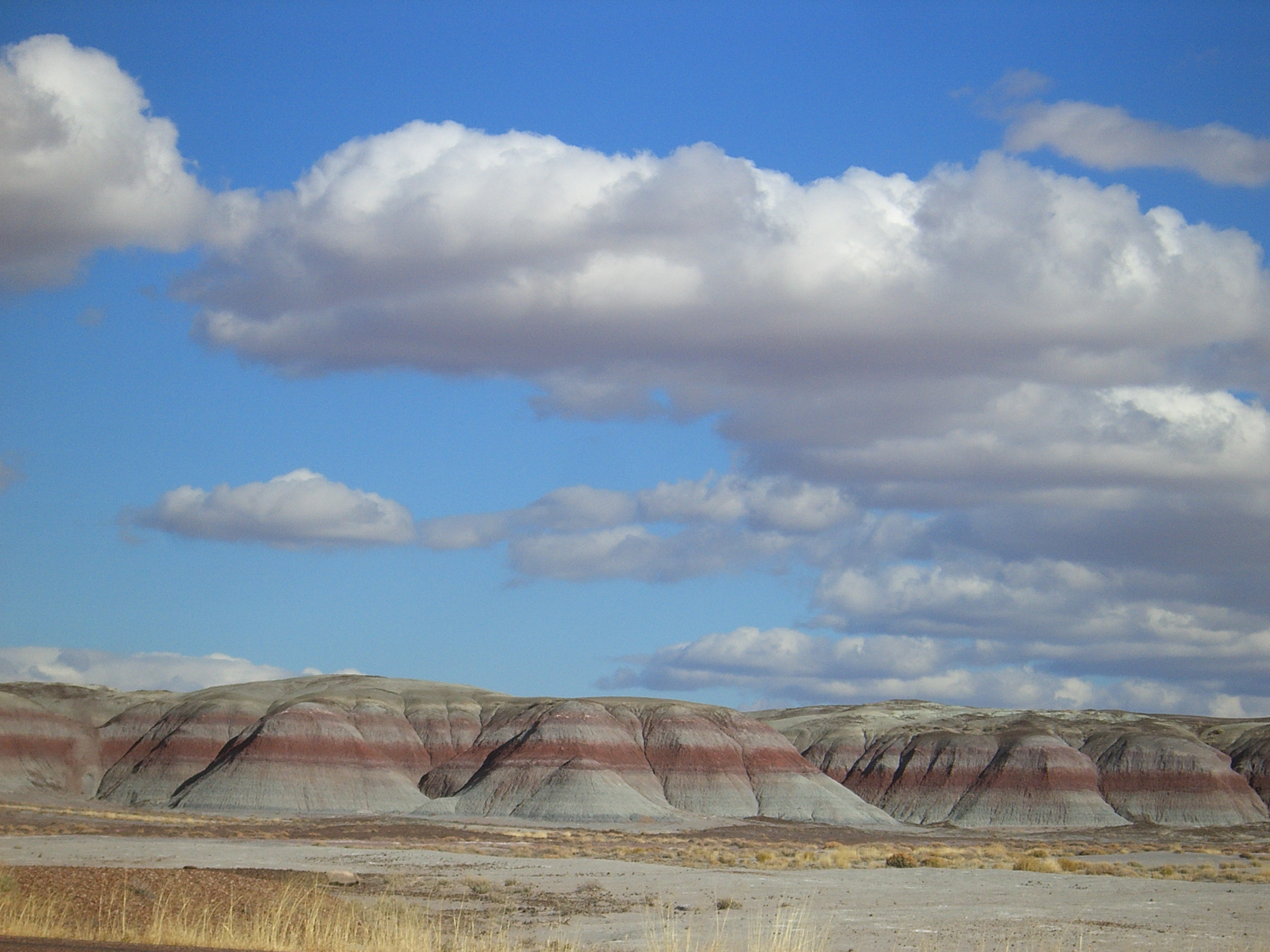 Petrified Forest National Park, Arizona, USA